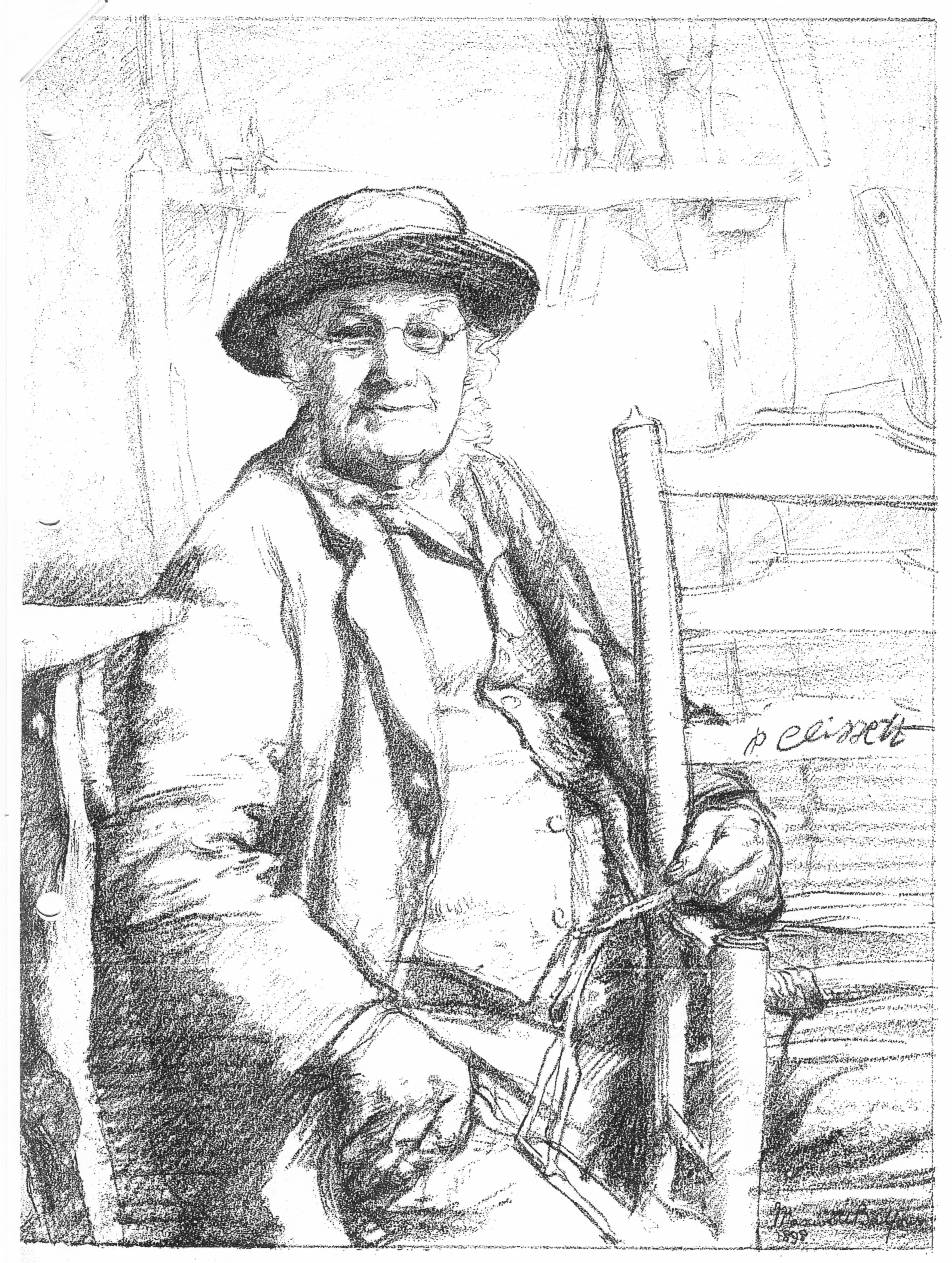 This lithograph was published in The Quarto, Fourth Series (1898), page 82 as "Portrait of Philip Clissett. A Lithograph, by Maxwell Balfour. Copies of original prints are held by the British Museum, London, and the Fitzwilliam Museum, Cambridge.